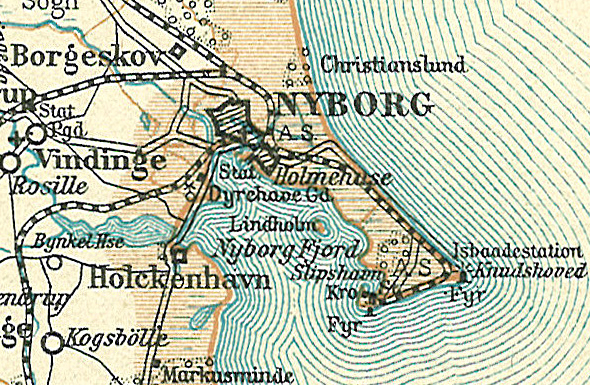 Map of Nyborg Fjord in Denmark